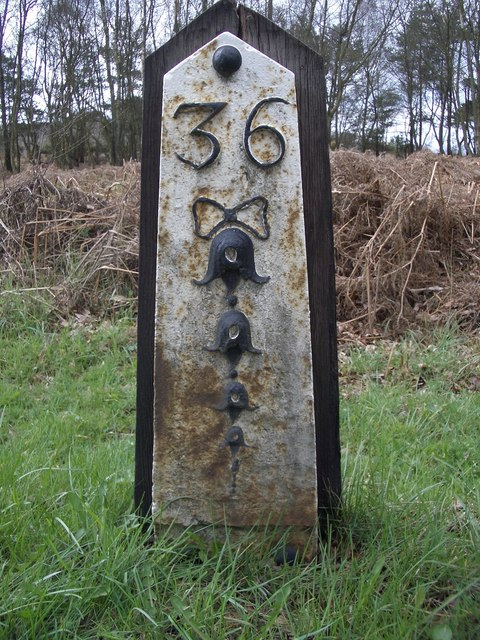 36 Miles to Bow Bells Milepost at Nutley, Sussex, England showing 36 miles from "Bow Bells" (The church of St Mary le Bow, Cheapside, London.